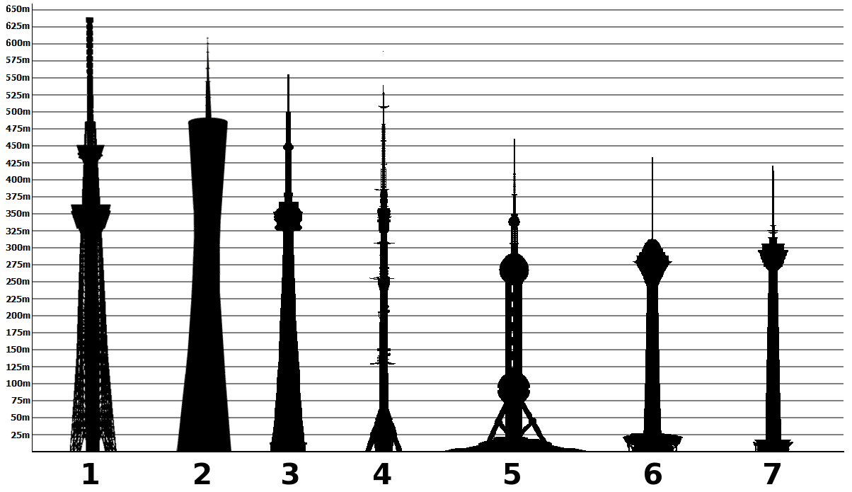 A height diagram of the six tallest towers in the world